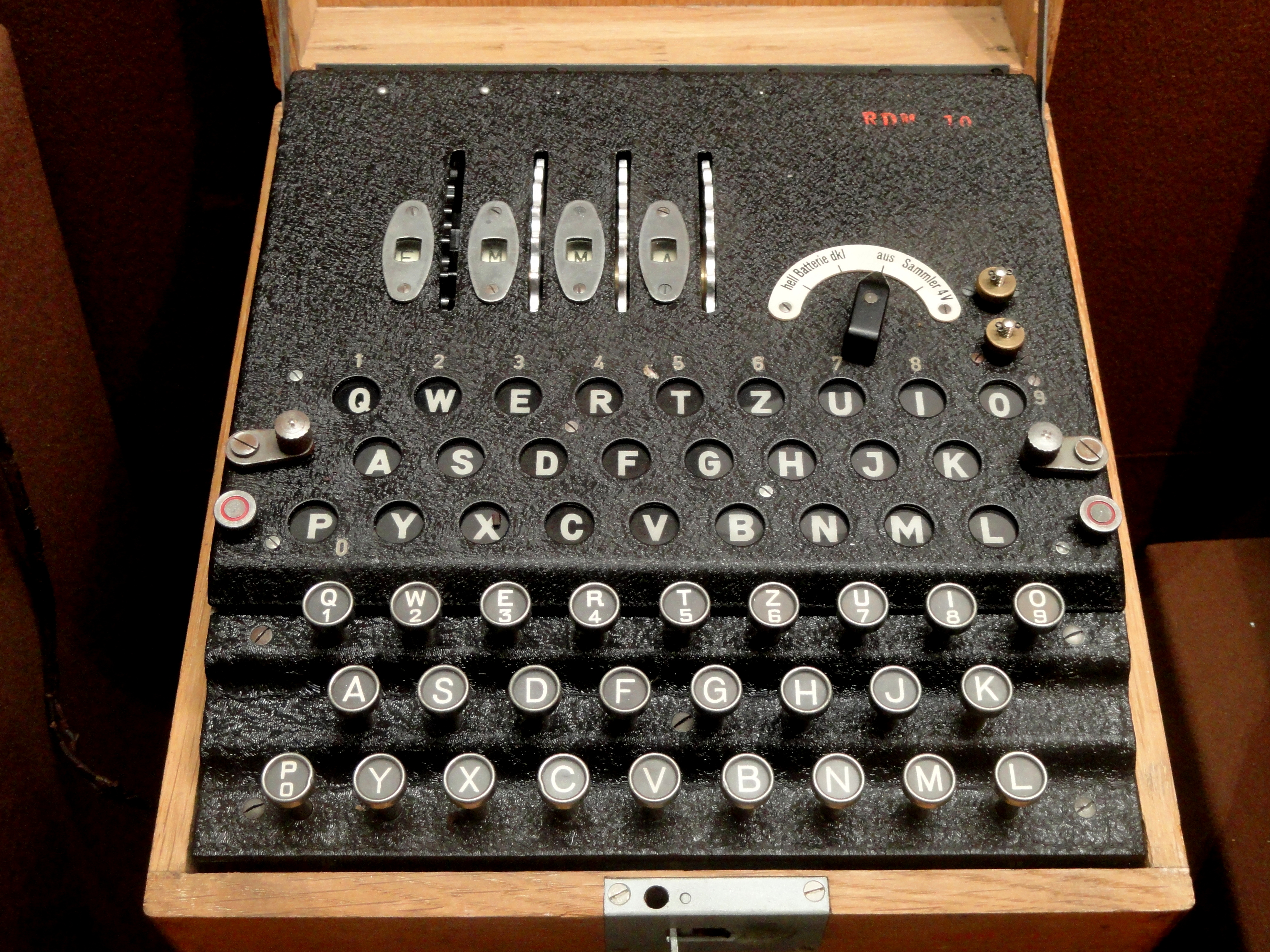 Exhibit in the National Cryptologic Museum, Fort Meade, Maryland, USA. All items in this museum are unclassified; items created by the United States Government are not subject to copyright restrictions.